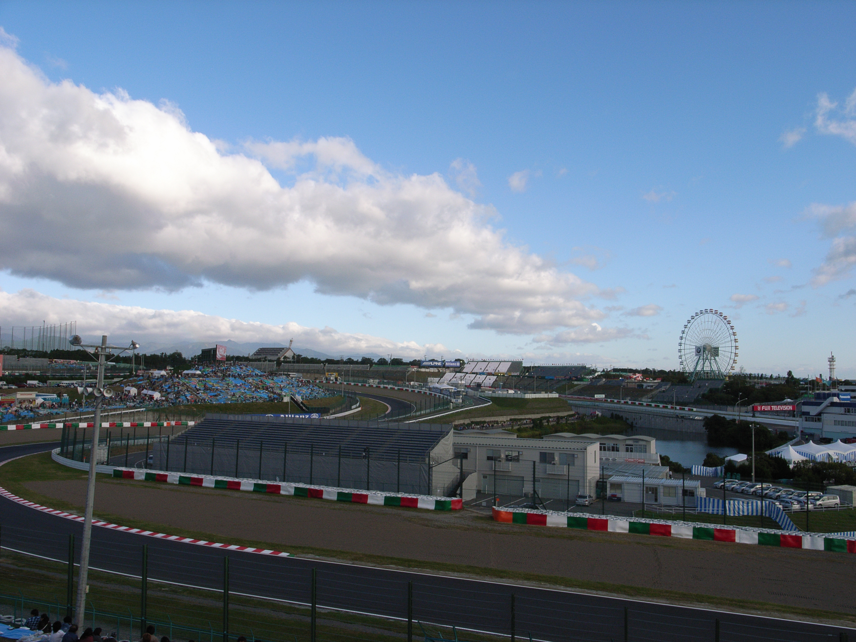 First few corners and the Ferris wheel at the Suzuka Circuit, Japan